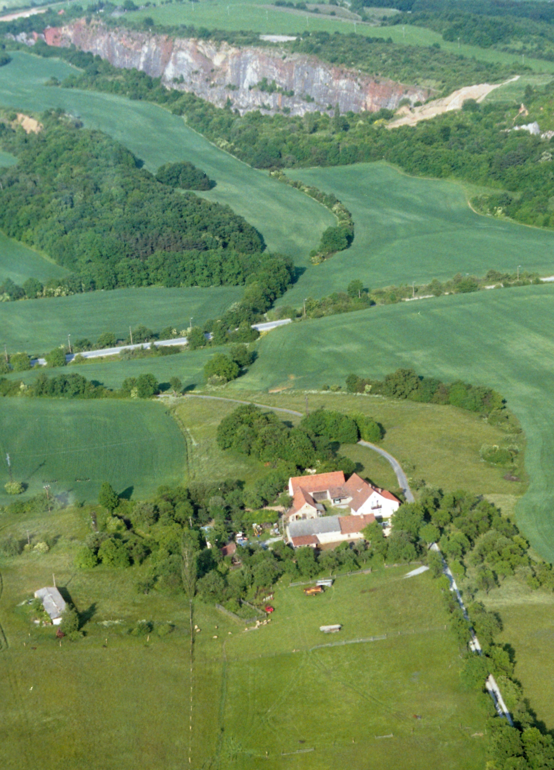 Amerika house.